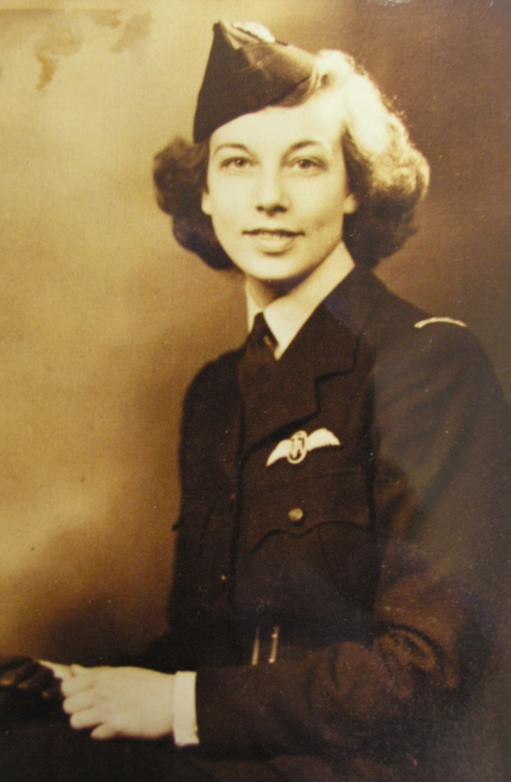 Helen Ruth Kelly - 1916-1992 commended ATA Spitfire pilot - year of publication guessed at